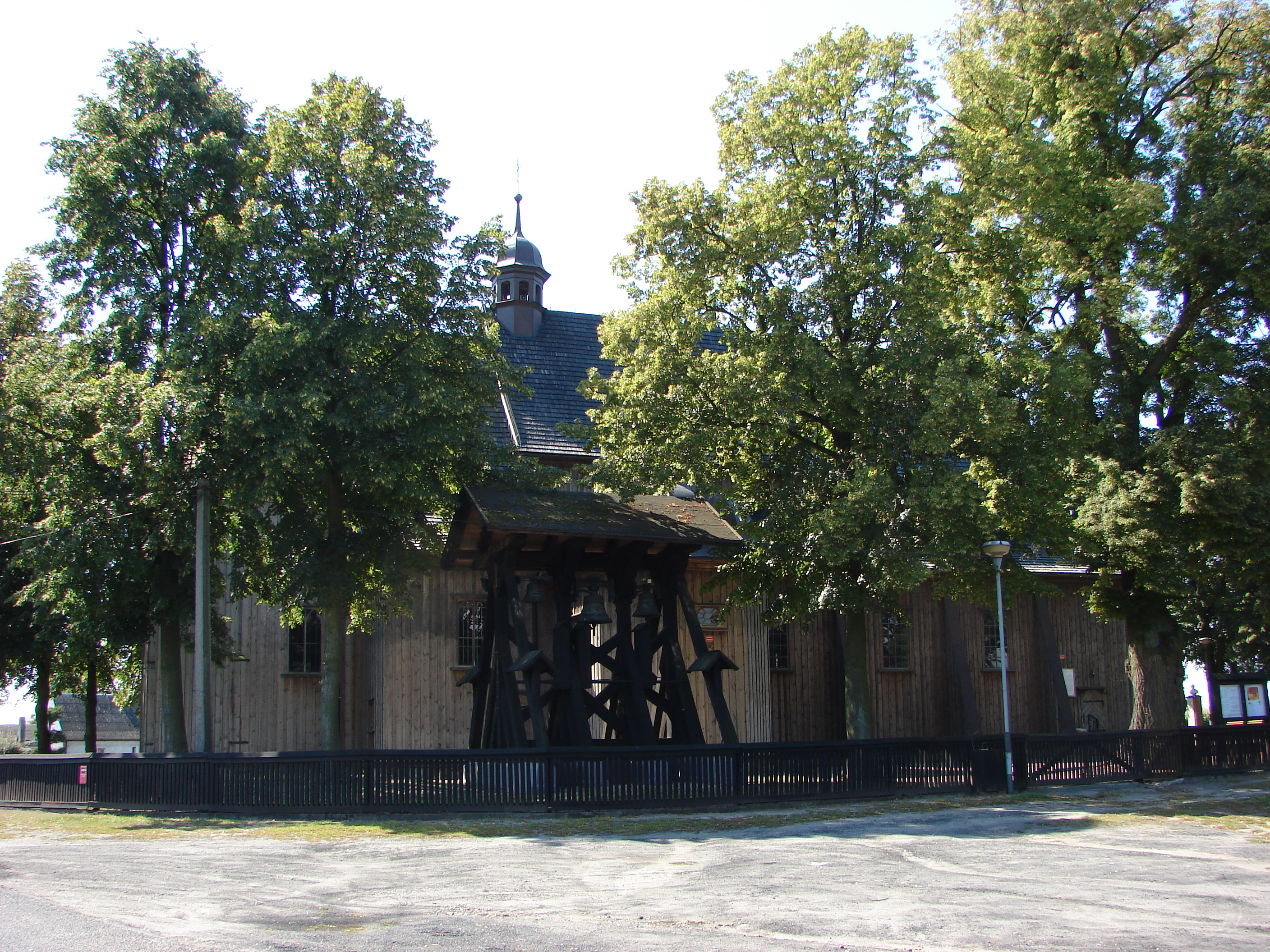 Pieranie, Gmina Dąbrowa Biskupia, Poland, parish church of Saint Nicholas, completed in 1743.